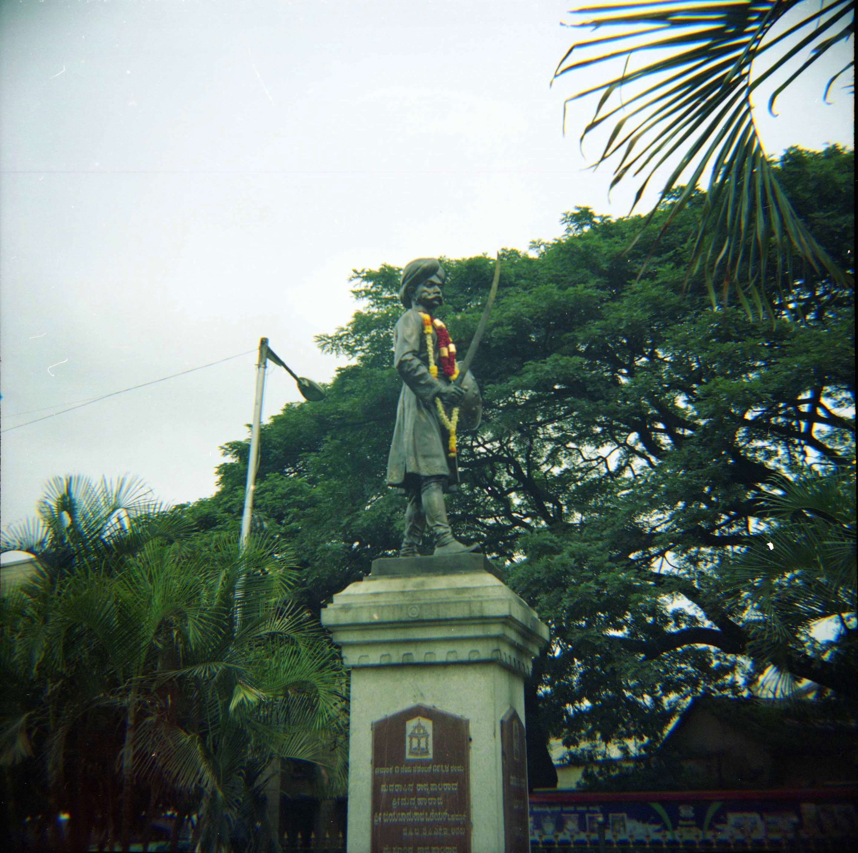 Kempegowda, near Majestic